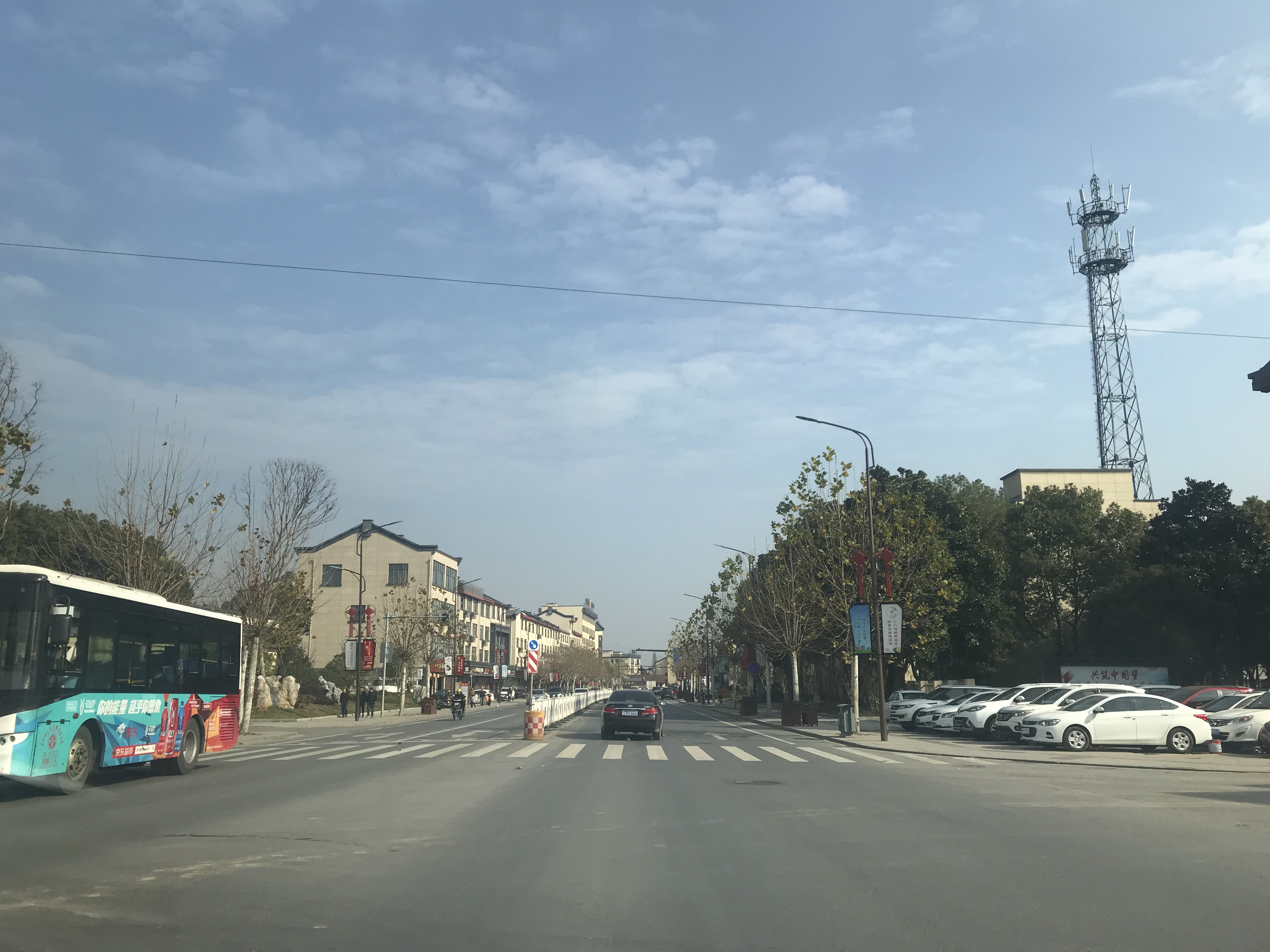 201912 Main Street of Chisong Town, Jinhua